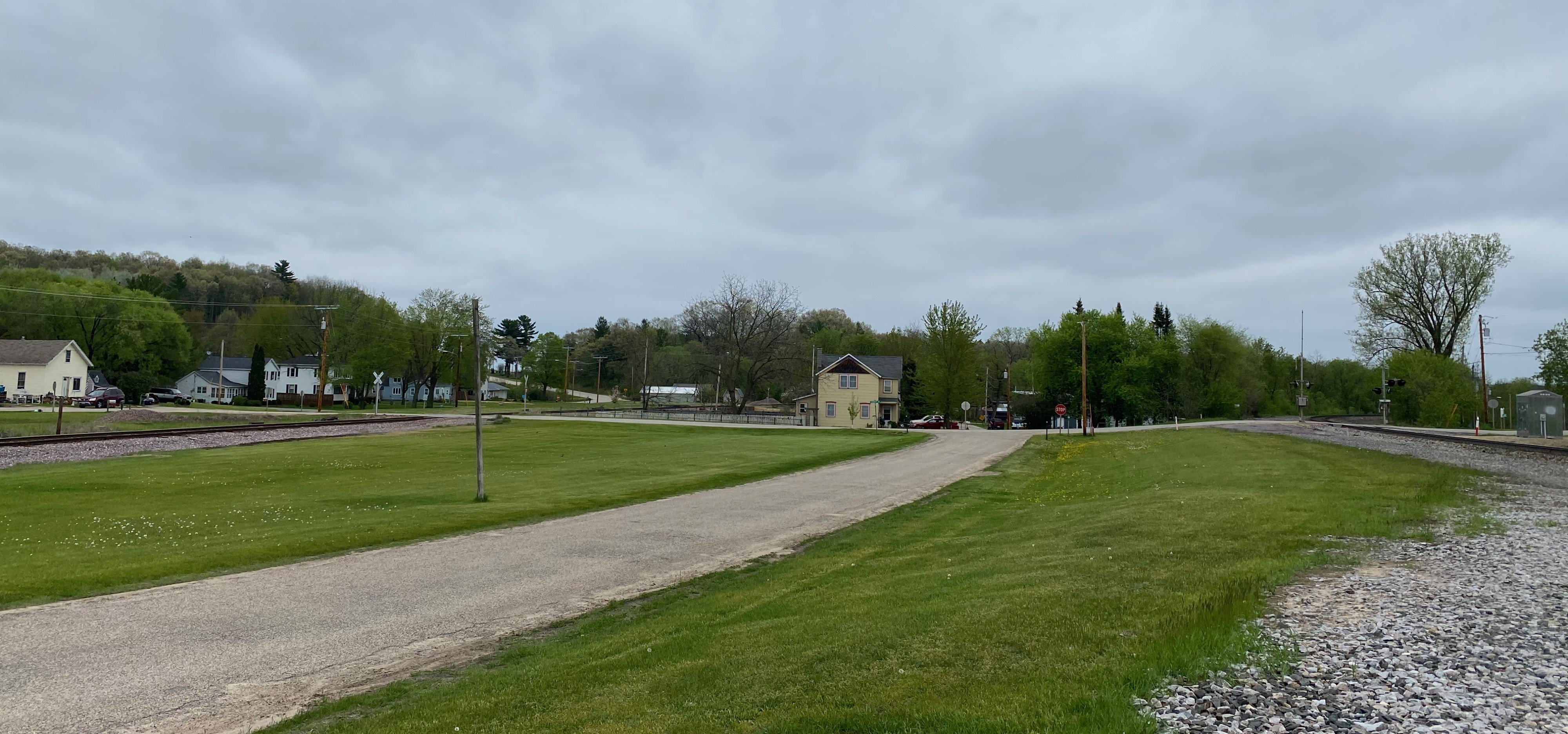 Tunnel City, Wisconsin town area (Flaten Avenue) between the Canadian Pacific tracks (right) and the Union Pacific Tracks (left). Stop sign is at Flag Avenue (County Road M)